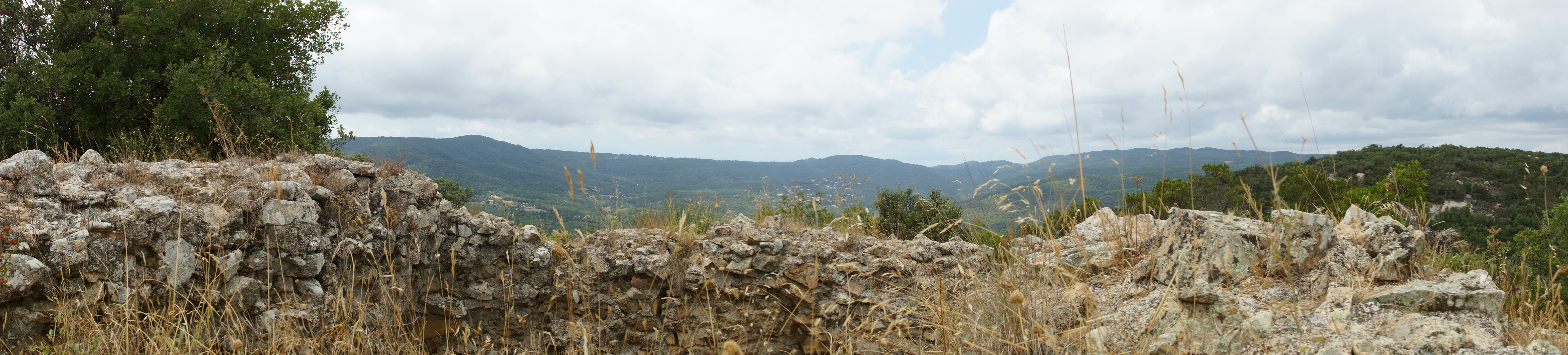 Calonge (Castellbarri), Catalonia: Panorama in southern direction from de ruins of the watch tower in direction of Romanya de la Selva